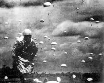 Imperial Japanese Army paratrooper are landing during the battle of Palembang, February 13, 1942.